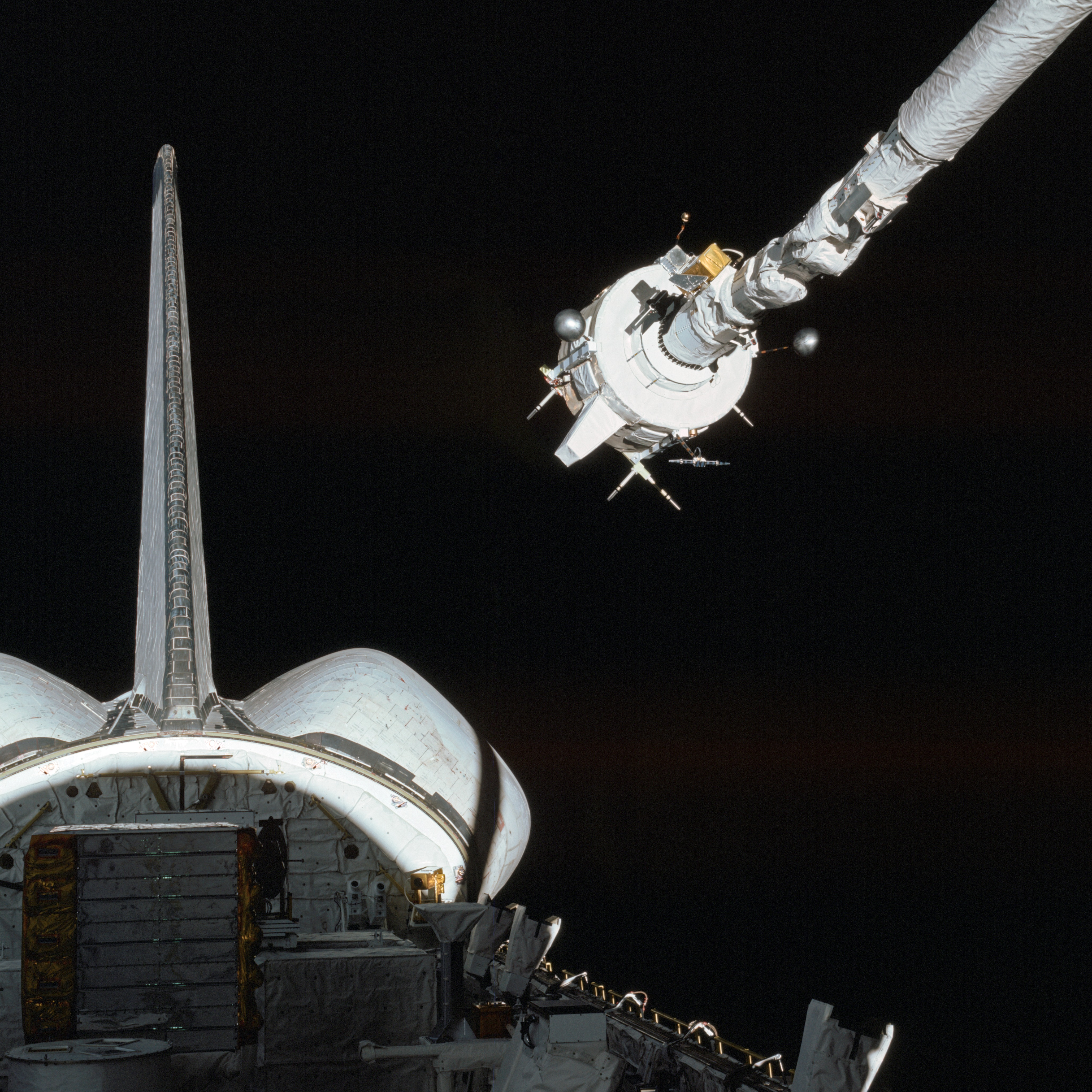 STS003-09-444 -- On Space Shuttle mission STS-3, March 1982, the Canadarm is used to capture and maneuver an object-- the plasma diagnostics package (PDP)